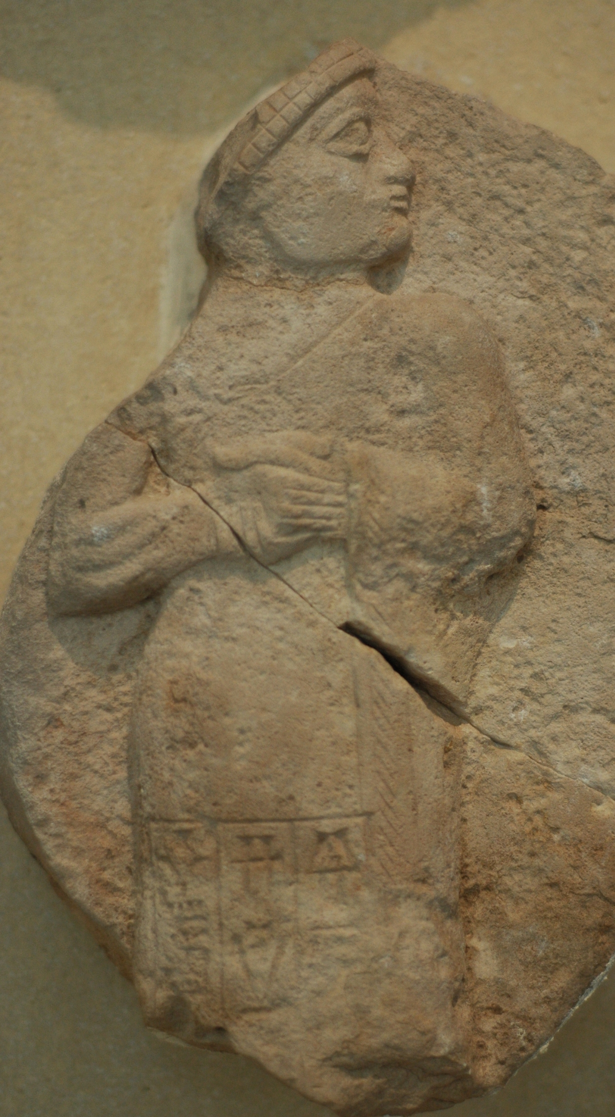 Gudea, lord of Lagash. Fragment of a broken stele found in Telloh (ancient Girsu).